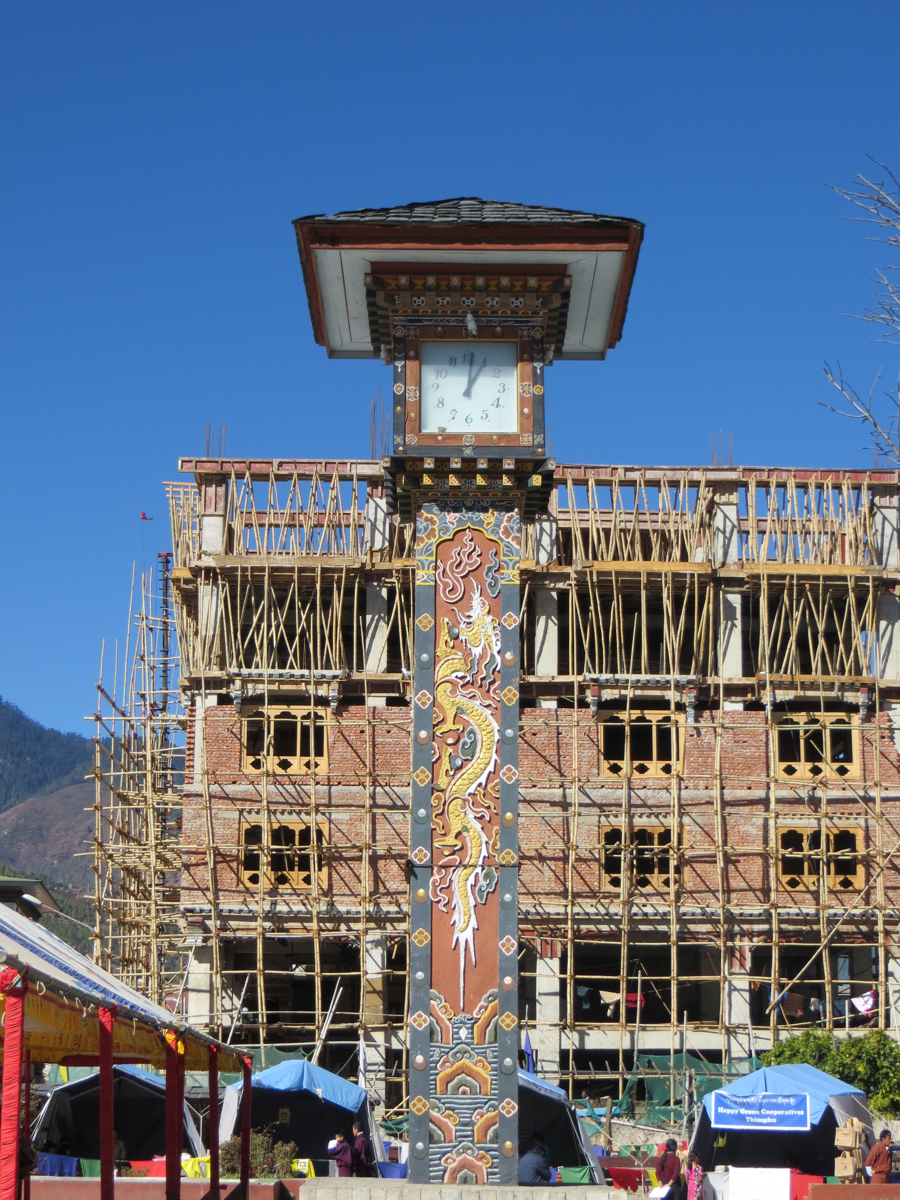 Thimpu-71